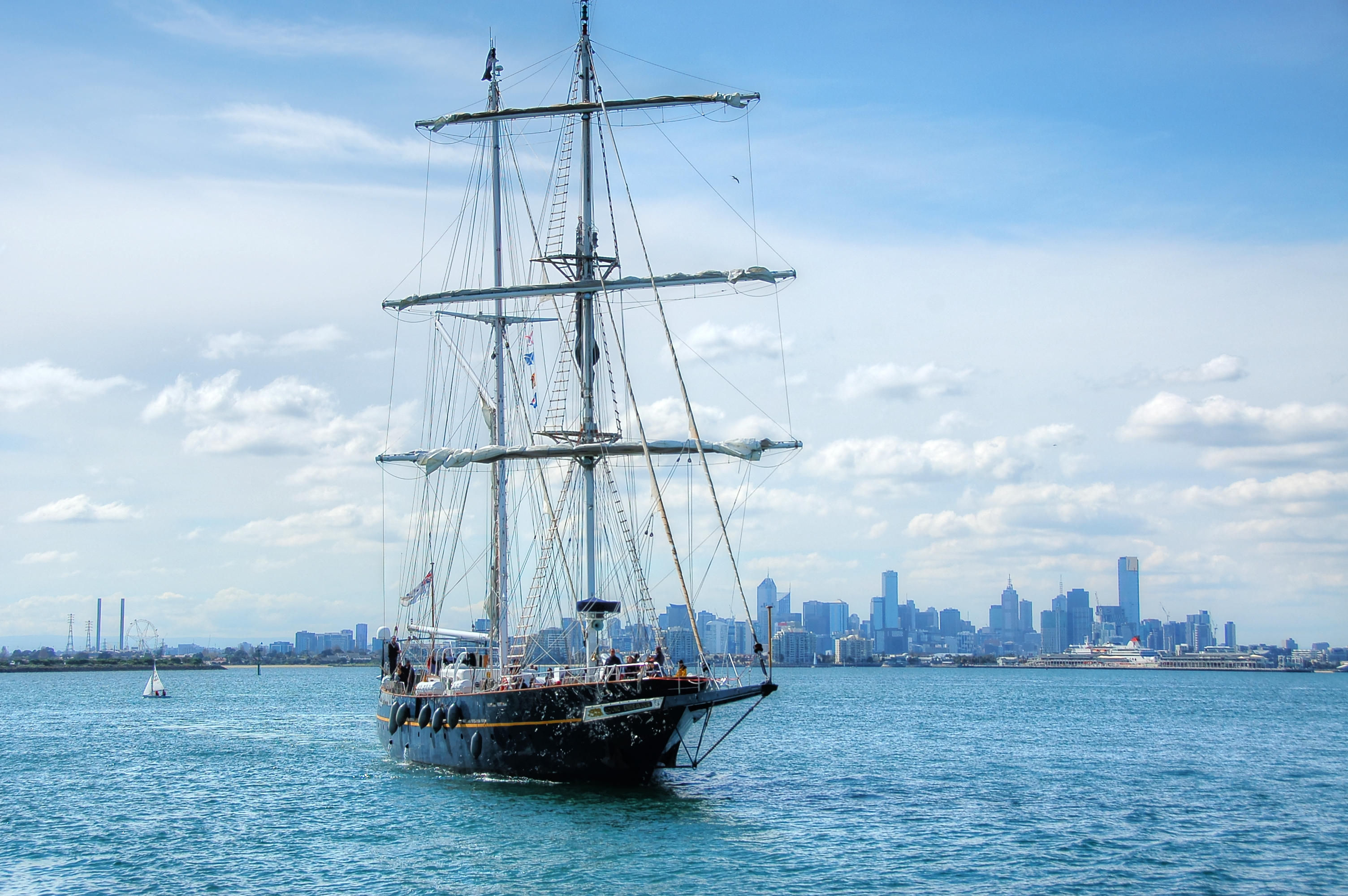 The Young Endeavour on approach to dock. More information about this tall ship can be found at